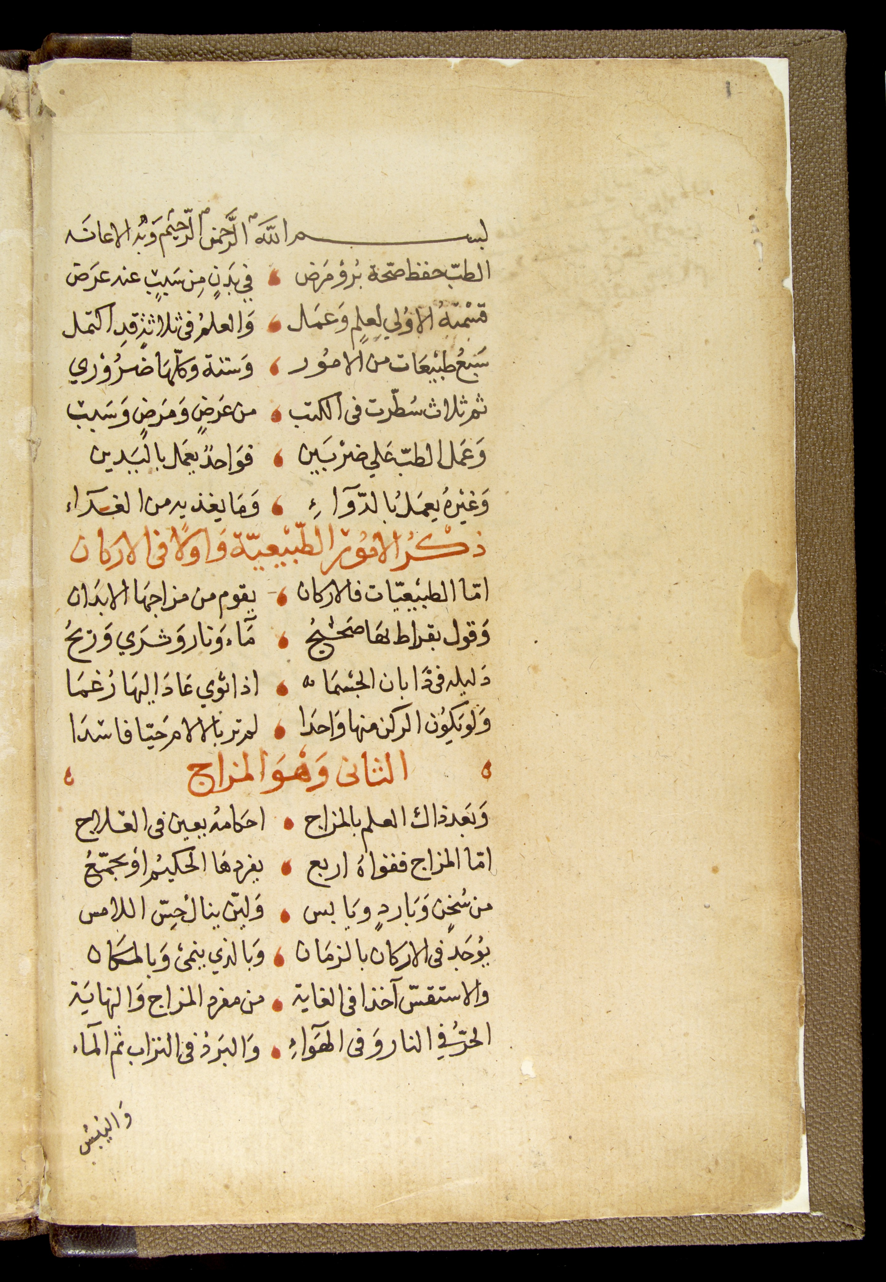 Page from Urguza fi-t-Tibb, an Arabic medical text in naskh script, concerning medicine Asian Collection Keywords: Arabic